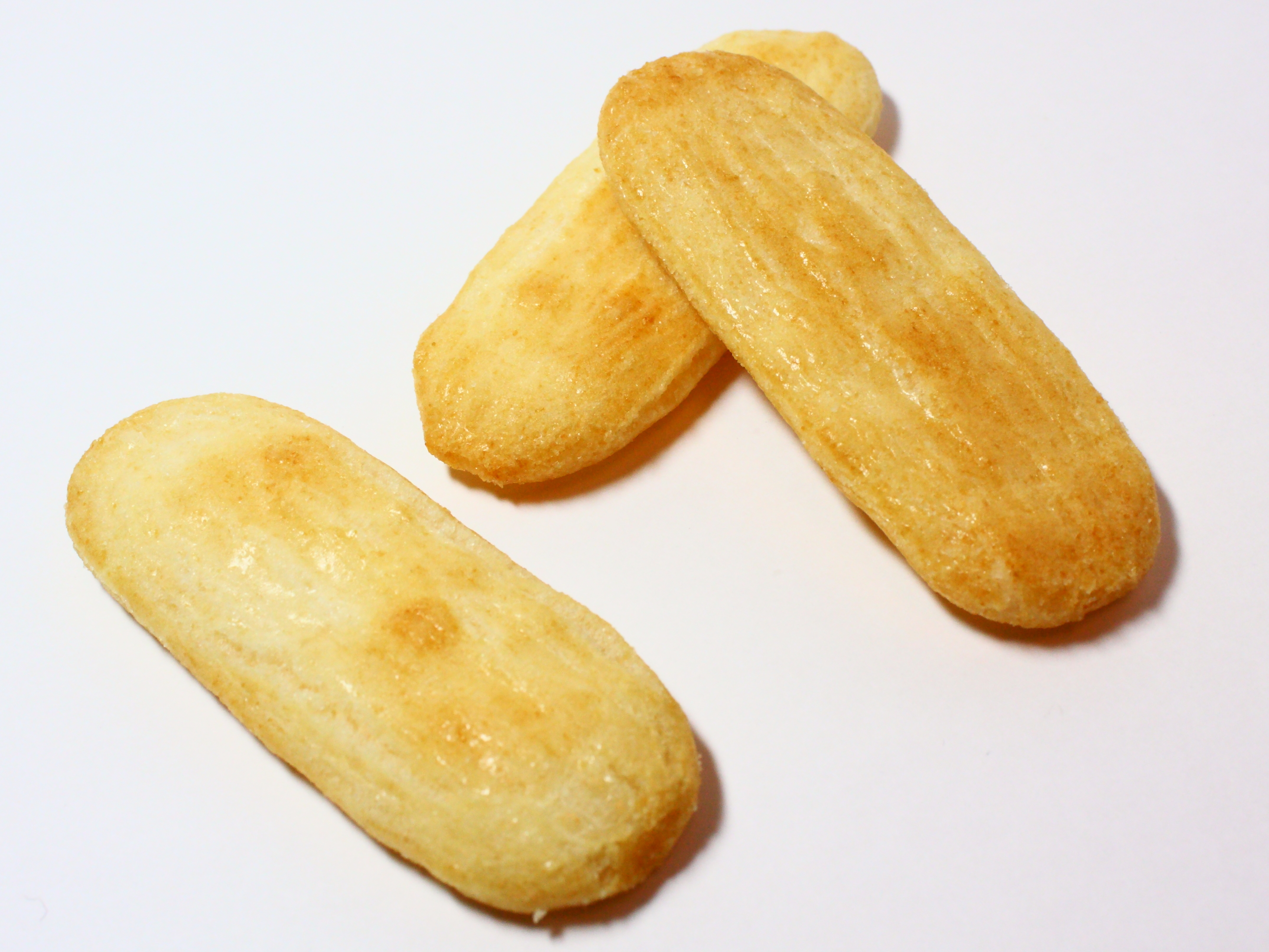 Kameda Seika "Happy Turn"